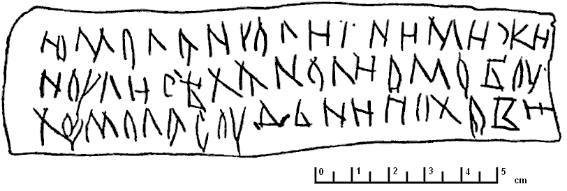 Birch bark letter no. 292 found in 1957 in the excavations in Novgorod and given the document number 292. Dated to the beginning of the 13th century. The text is written in Cyrillic alphabet in the Karelian dialect of the archaic Finnish or Finnic language. The text as transliterated to latin alphabet by J. S. Yeliseyev and interpreted in modern Finnish jumolanuoli ï nimizi nouli se han oli omo bou jumola soud'ni iohovi Jumalannuoli, kymmenen [on] nimesi Tämä nuoli on Jumalan oma Tuomion-Jumala johtaa.